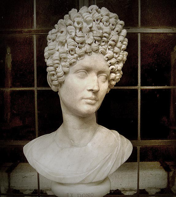 Portrait of a woman of the Flavian period, marble // Portrait bust of a young woman (Julia, daughter of Titus?). Marble. 80s—90s A.D. Shows ultra-elaborate hair styles worn by upper-class Roman women of the time. Rome, Capitoline Museums, Palazzo Nuovo, Hall of the Emperors.